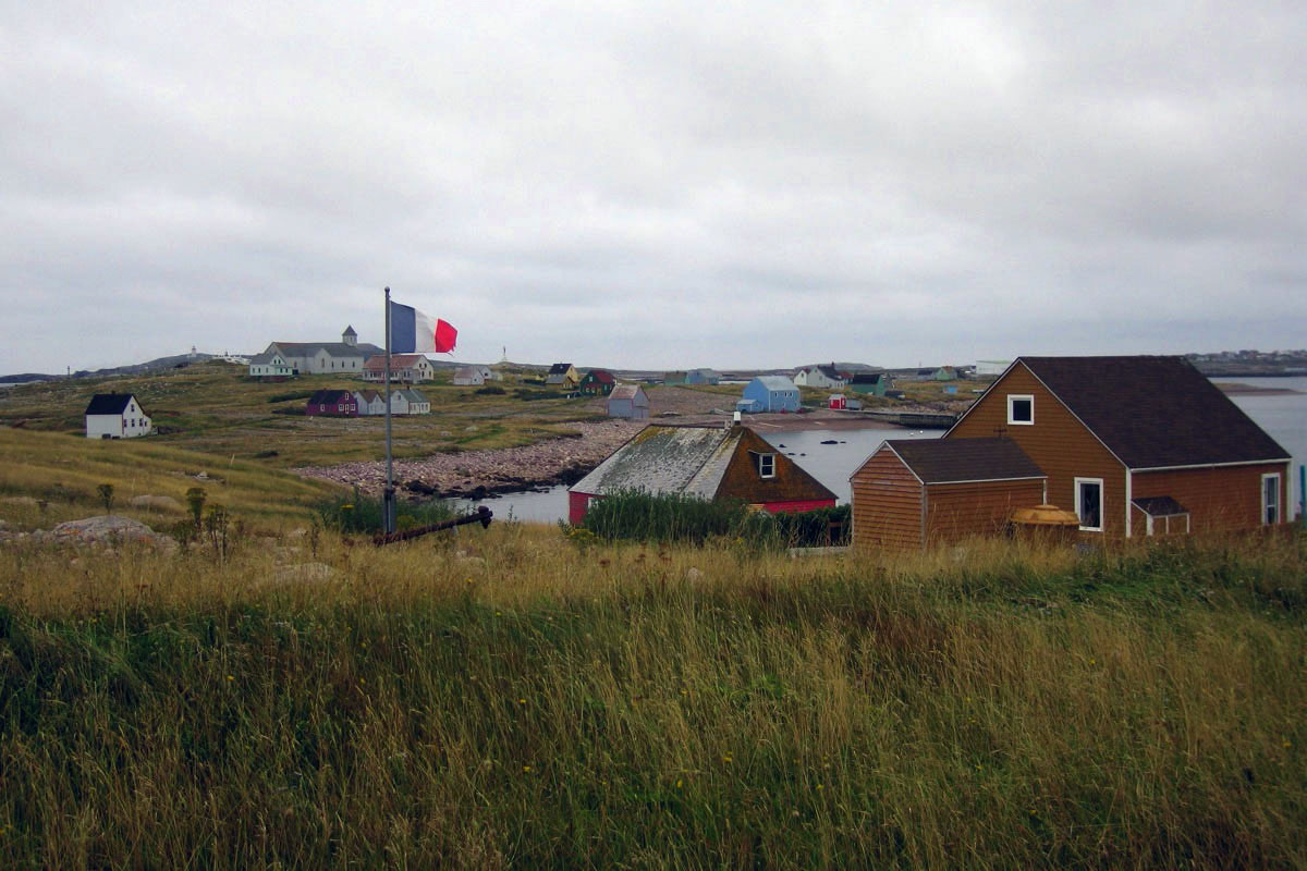 Saint-Pierre, Saint-Pierre and Miquelon